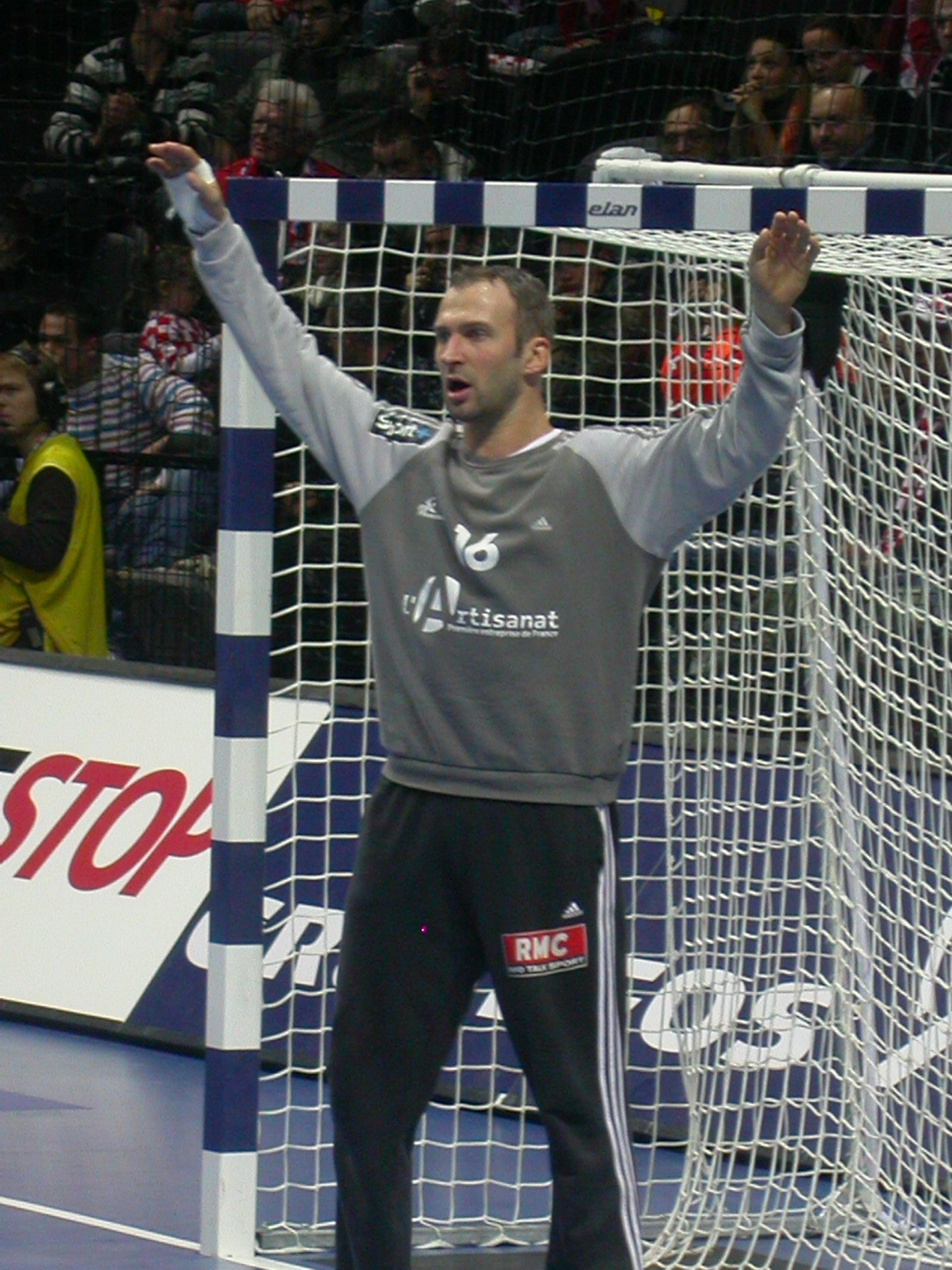 Thierry Omeyer